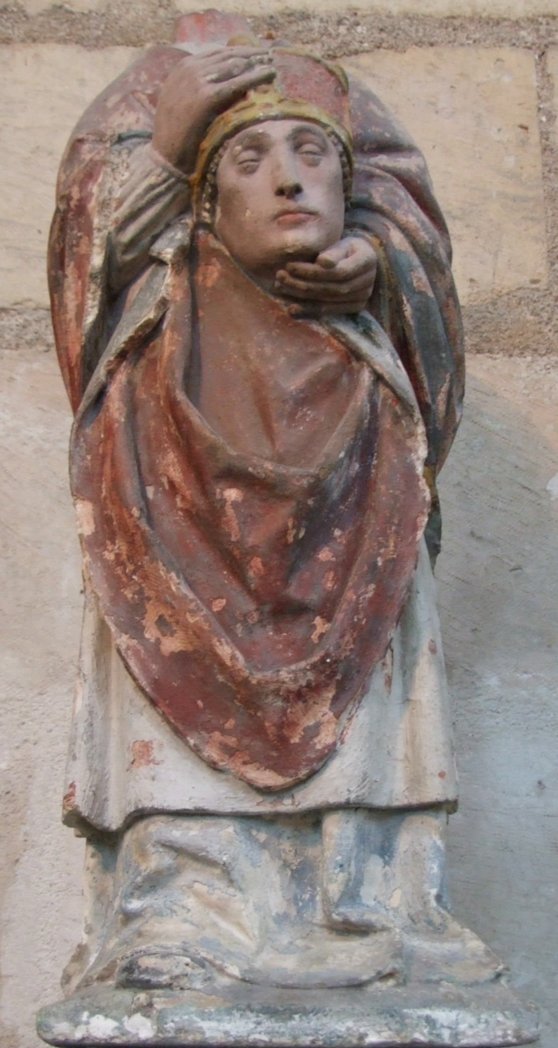 Saint-Germain abbey, Auxerre, Yonne, Burgundy, FRANCE